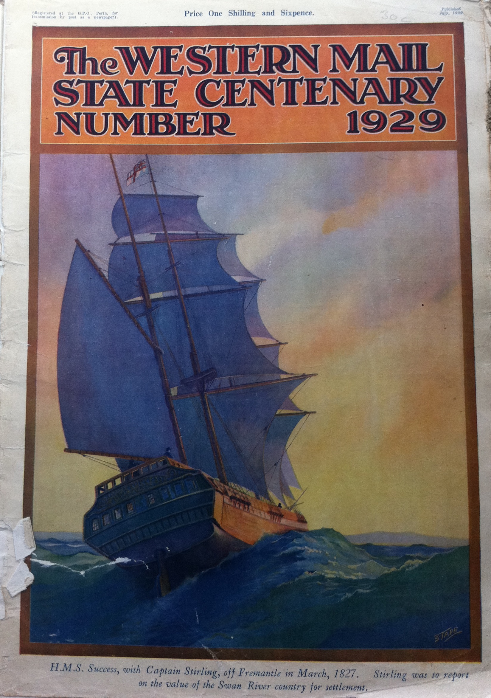 Cover page of the Western Mail on 1929 WA Centenary